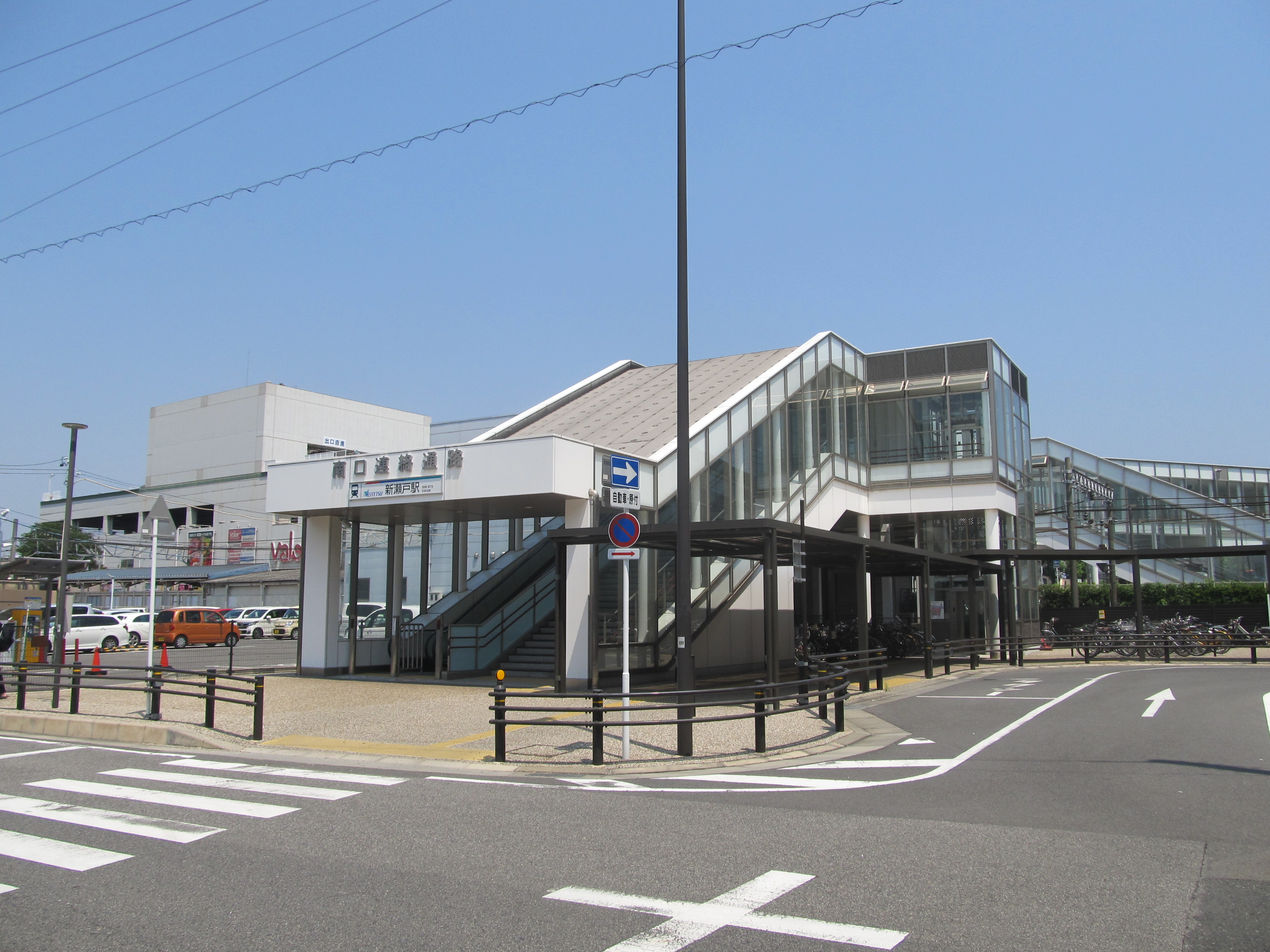 Nagoya Railroad Seto Line Shin Seto Station South Gate